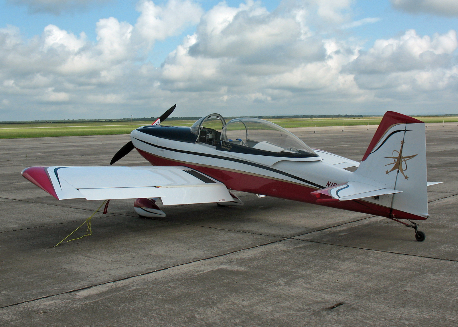 Van's RV-8. Southwest Regional Fly In, Hondo, Texas. 2 Jun 2007.